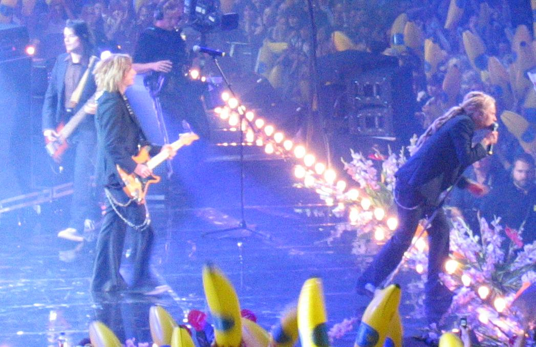 Technicolour in Hartwall Arena 2006-09-14